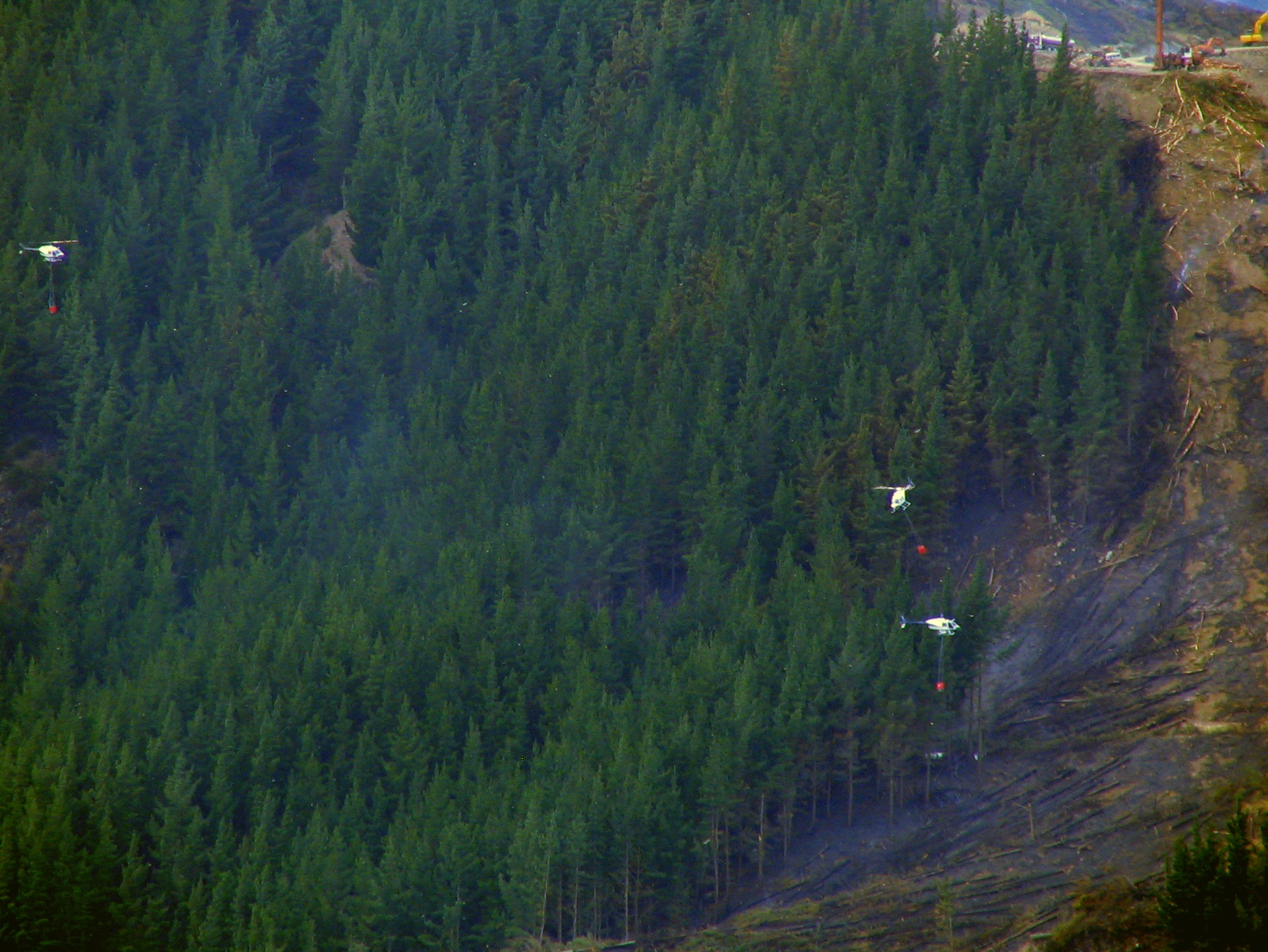 Three helicopters emptying monsoon buckets, while fighting the Mt Allan forest fire near Dunedin in New Zealand